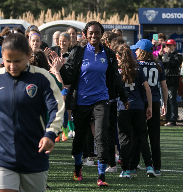 Ifeoma Onumonu high fiving fans before the start of a Boston Breakers game on May 7, 2017.